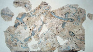 Fragments of the flying fish painting, Phylakopi (National Archaeological Museum, Athens)